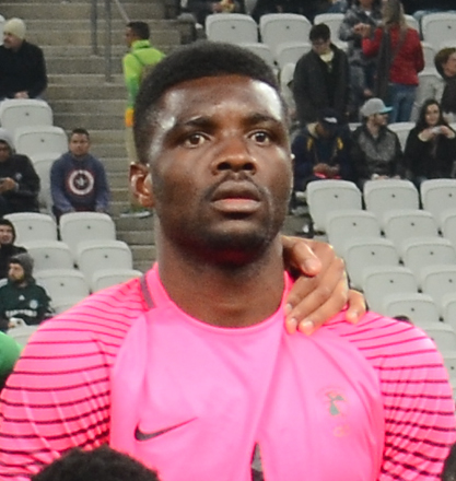 São Paulo - Colômbia vence a Nigéria por 2x0 na Arena Corinthians (Rovena Rosa/Agência Brasil)